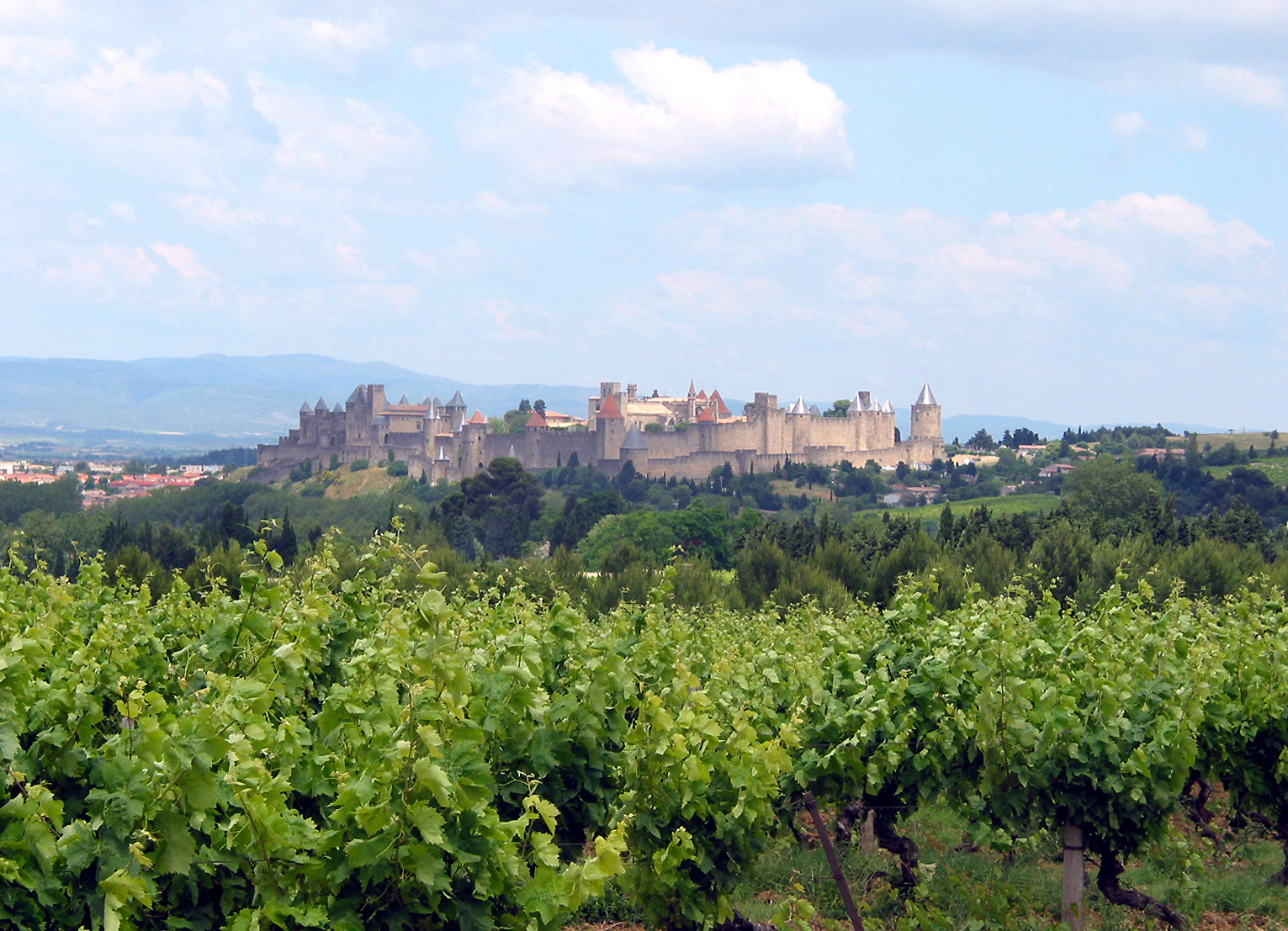 Carcassonne (Aude - France), the medieval city with its pleasant green site.